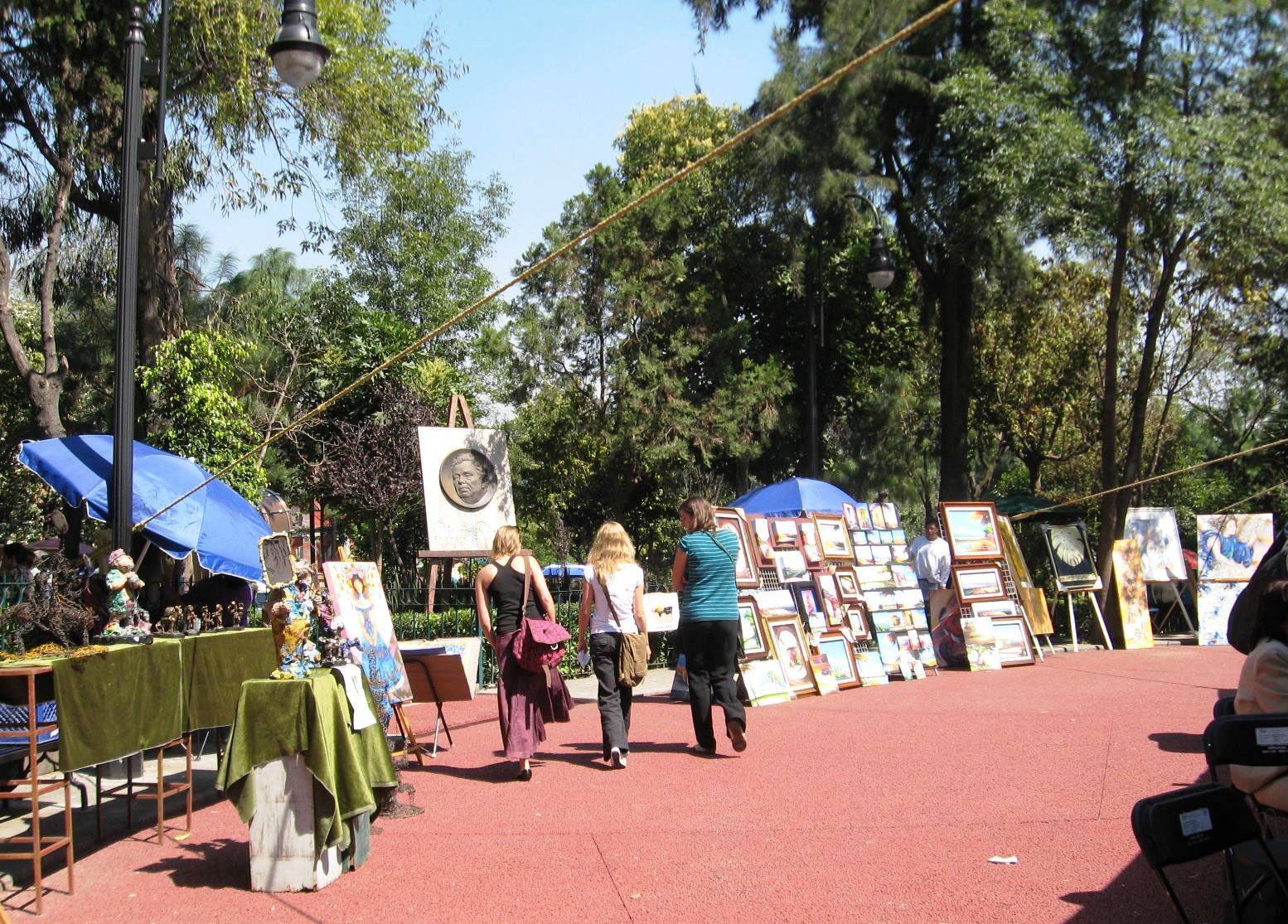 Part of art market in the San Jacinto Plaza in San Angel colonia of Mexico City